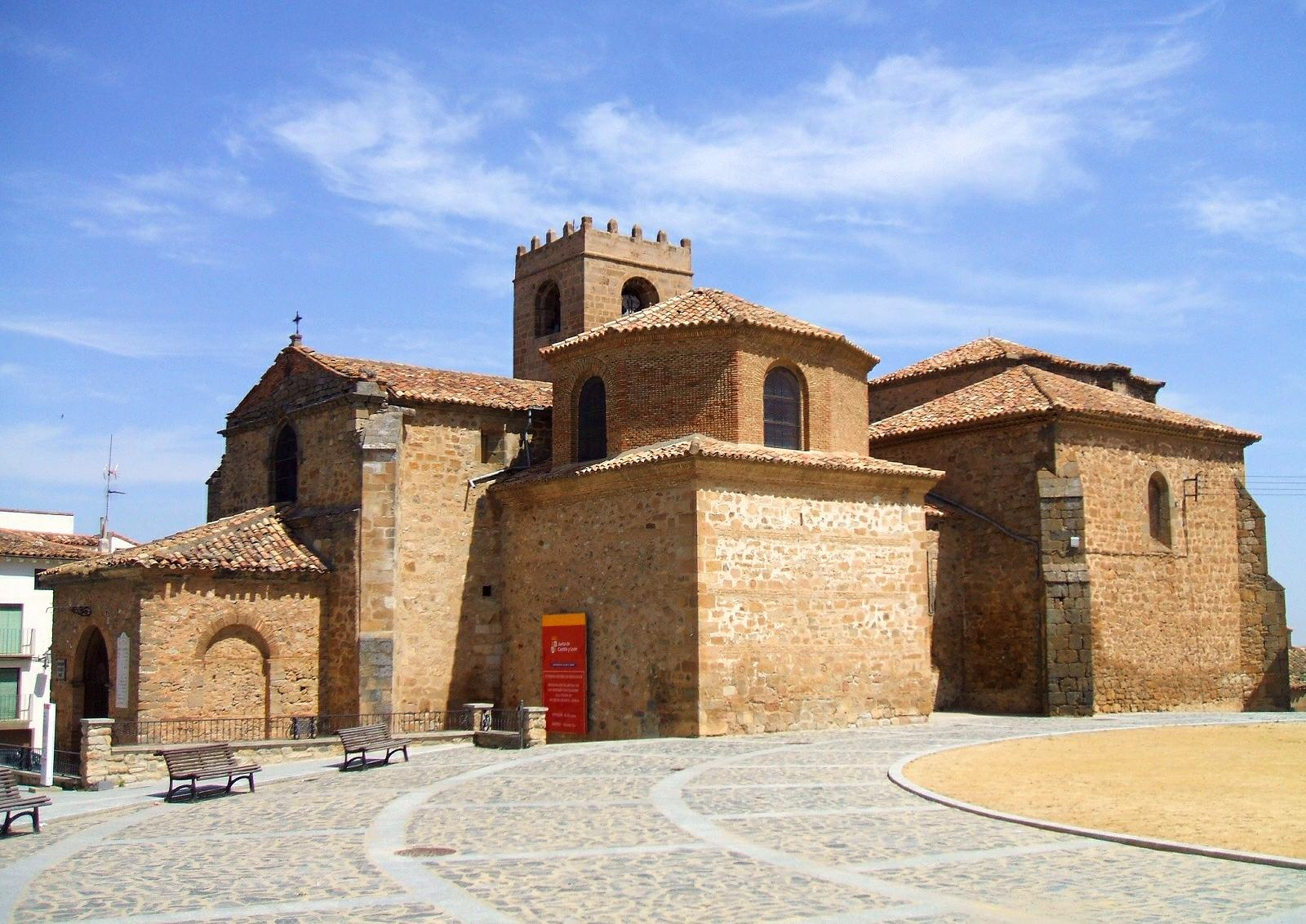 Iglesia de San Miguel, Ágreda (Soria, Castilla y León, España)